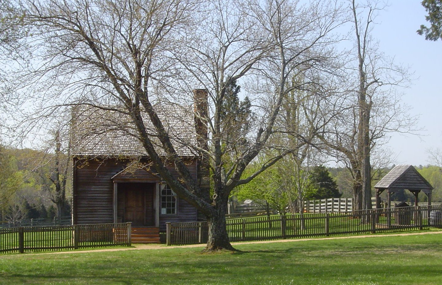 Jones Law Office with well at the Appomattox Court House National Historical Park.